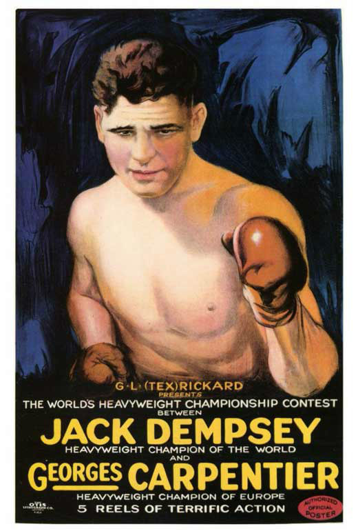 Poster for the film of the 1921 Jack Dempsey vs Georges Carpentier fight. The fight promoter, Tex Rickard, hired Fred. C. Quimby to film the bout. Quimby in turn promoted the film via various motion picture trade magazines. In this open letter advertisement, the Chicago Federation of Labor asks that the $1 per person ticket price be lowered to allow more people to see the film.